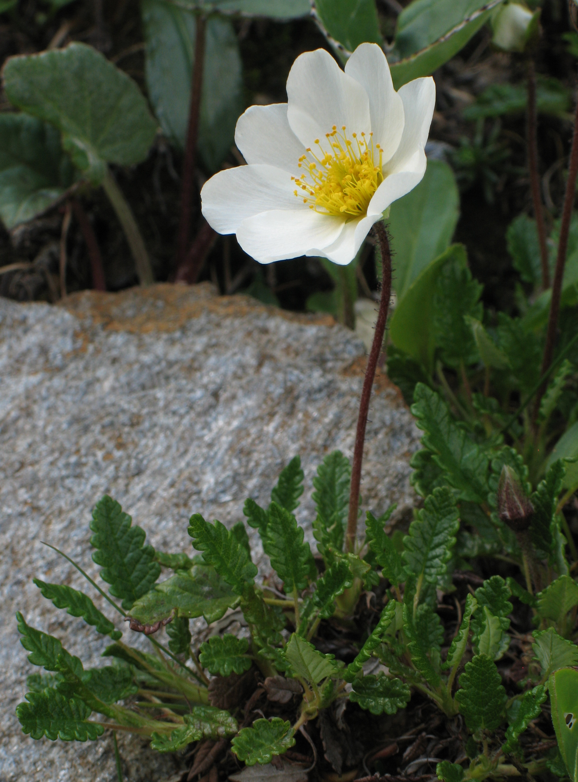 Mountain avens (Dryas octopetala) in the mountain area near the Simplon pass, Valais, Switzerland